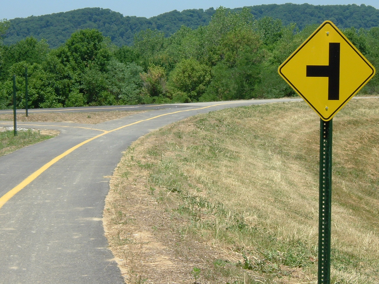 Metro Loop Bike Trail LOUKY